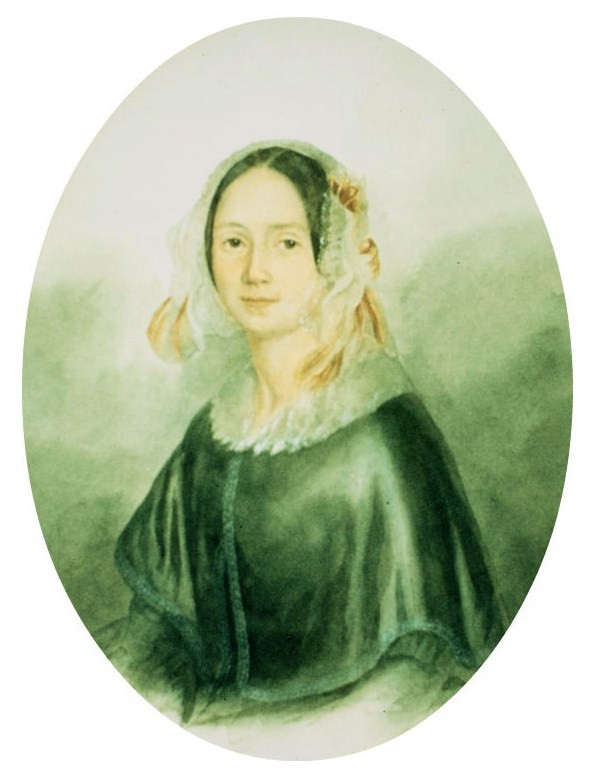 Dorothea Knorre, geb. von Dieterichs (1814—1851)